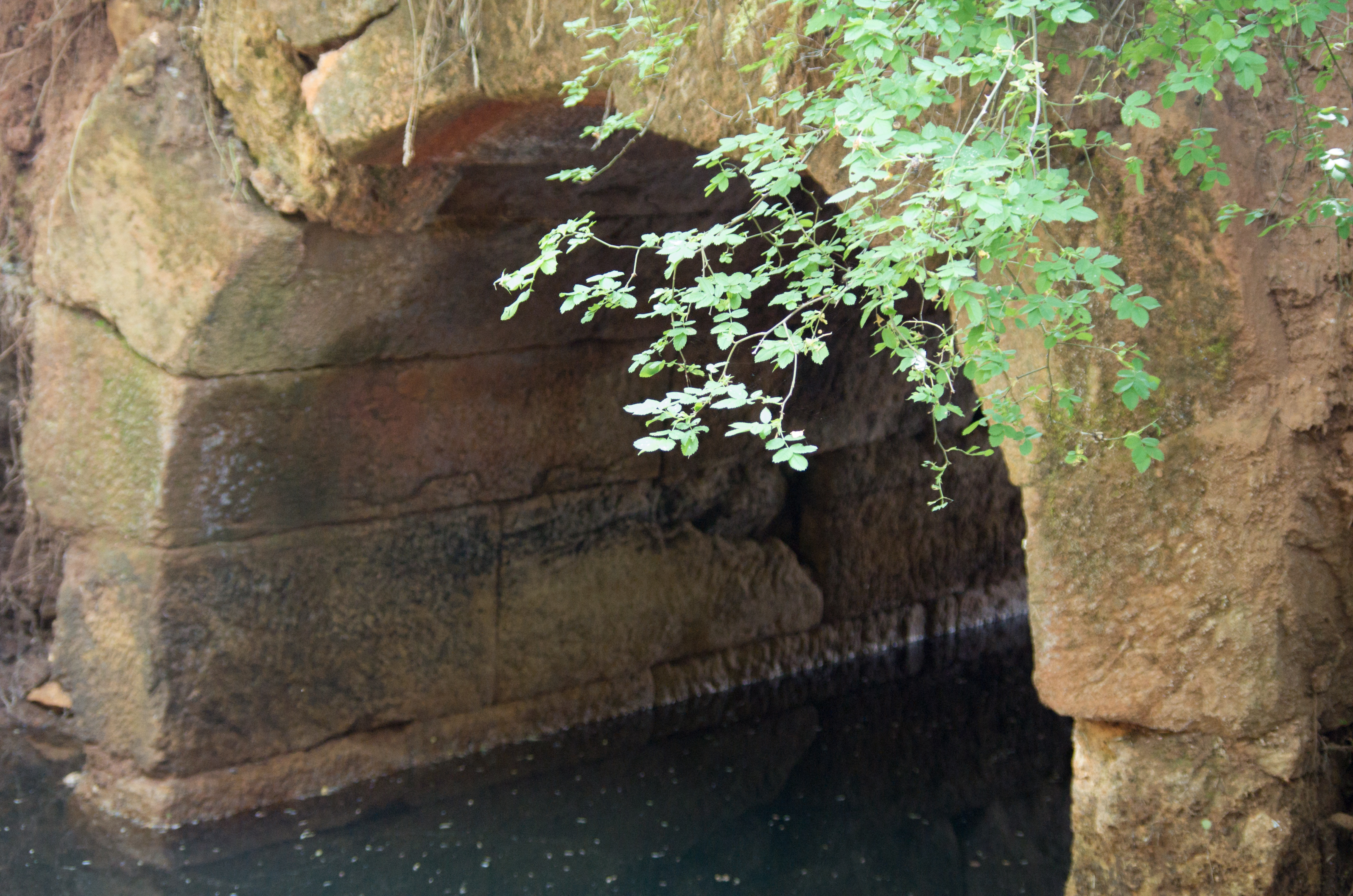 The arch of the ancient Macedonian tomb in the archaeological site of Staro Bonche, Macedonia